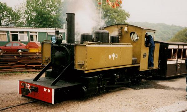 Alco WDLR locomotive at the Ffestiniog Railway 1995 gala. Author: Dan Crow